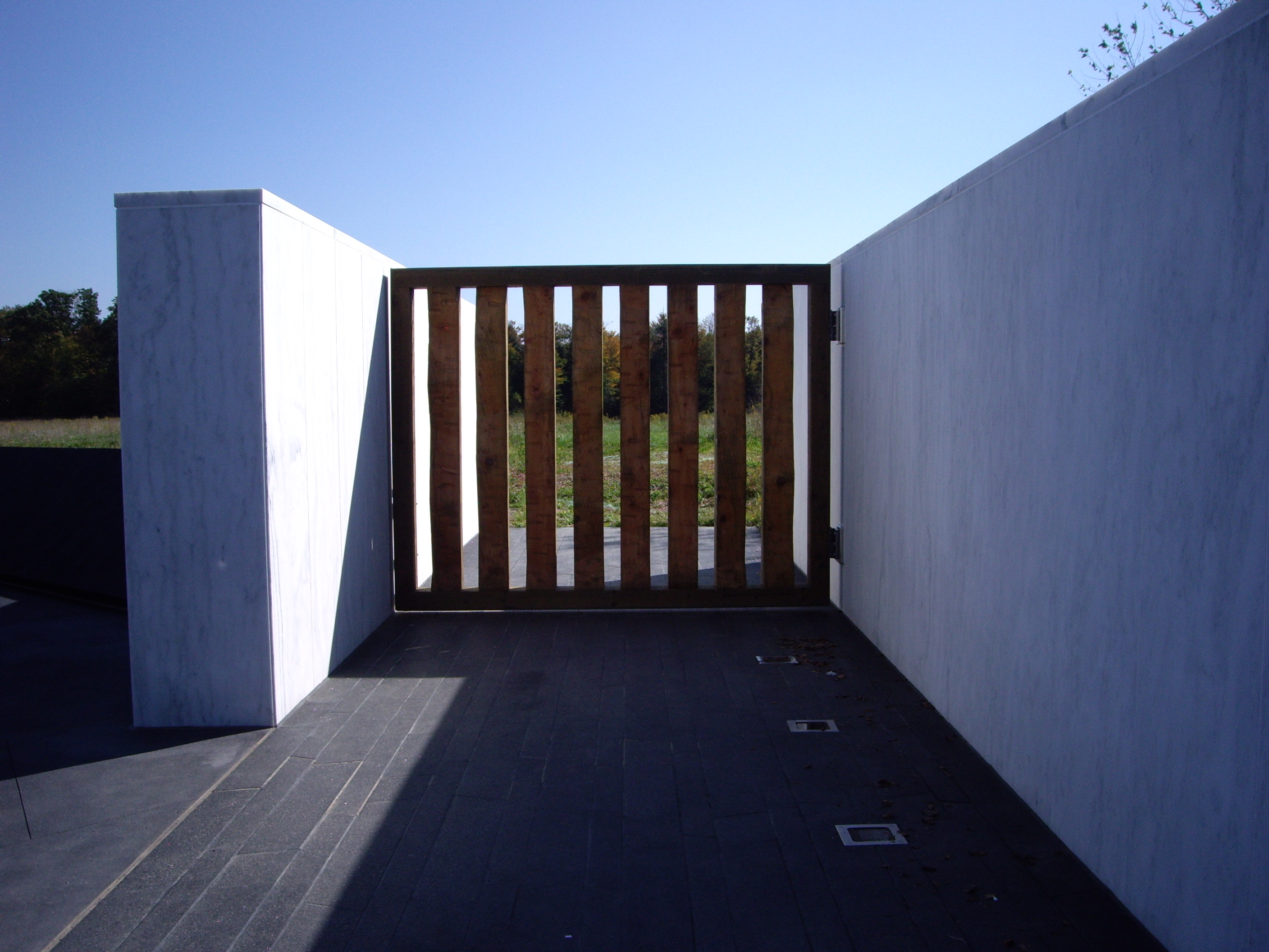 Flight 93 National Memorial